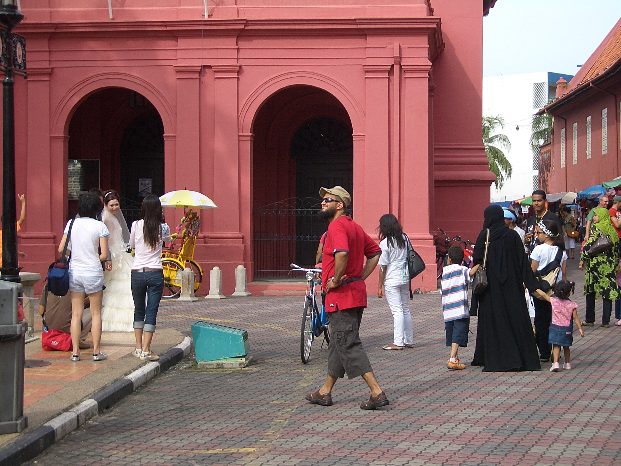 Melaka's Dutch Square in Melaka is visited by a great variety of people